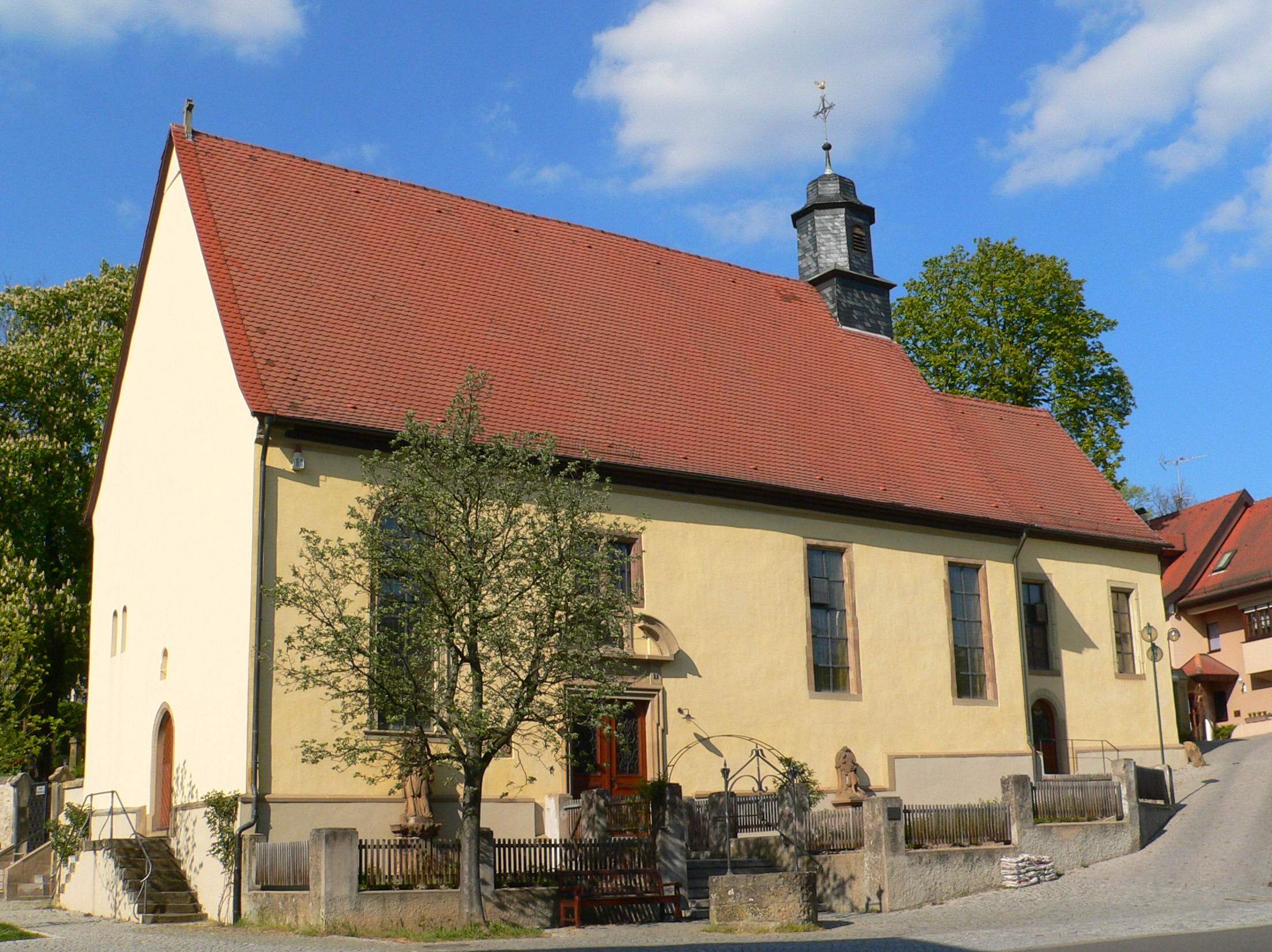 The old Church "FrauenKirche" of Neckarsulm / Germany